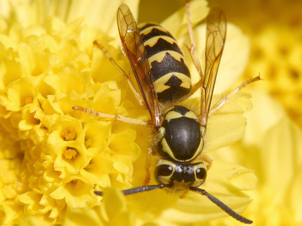 German wasp (Vespula germanica)